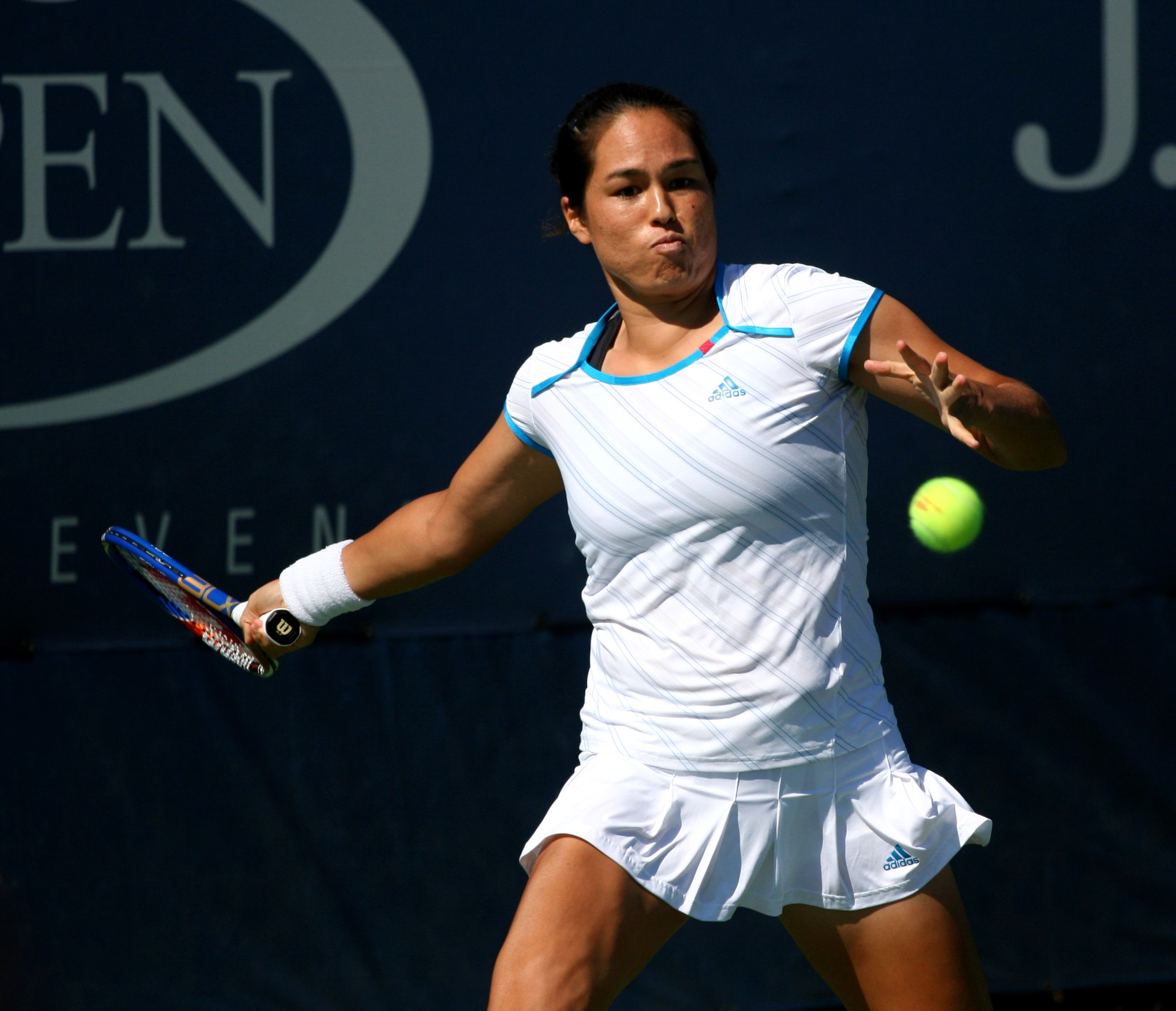 Jamie Hampton at the U.S. Open, Tuesday, Aug. 30, 2011